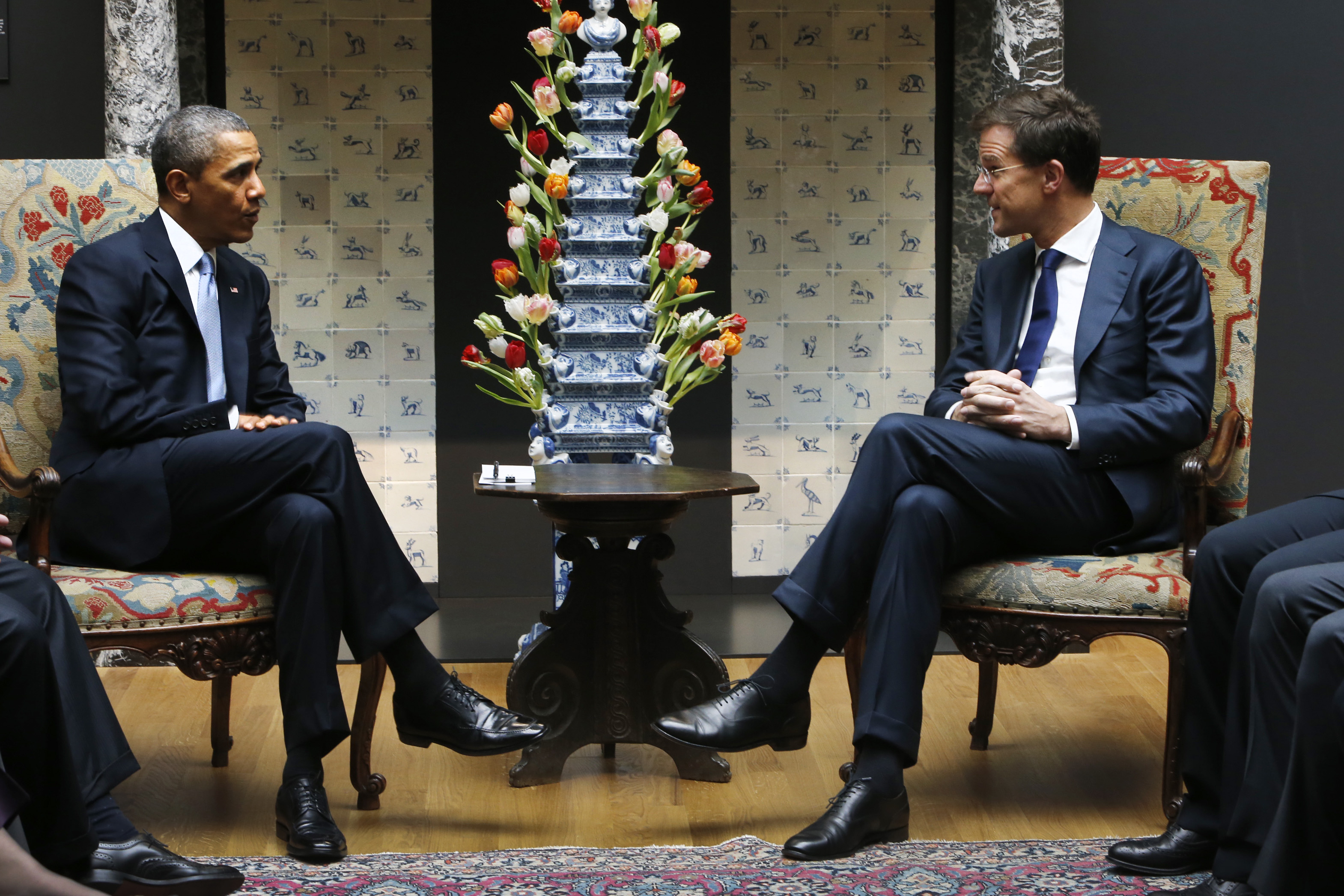 Replica of a 17th-century flower pyramid that Tichelaar made for the Rijksmuseum three years ago. These flower pyramids were made by the Delft company ‘De Grieksche A’ from 1695, which was making earthenware in the late 17th and early 18th centuries.